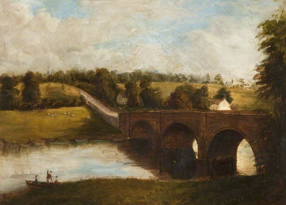 Boating at Brungerley by Benjamin Satterthwaite Clitheroe Castle Museum; Supplied by The Public Catalogue Foundation